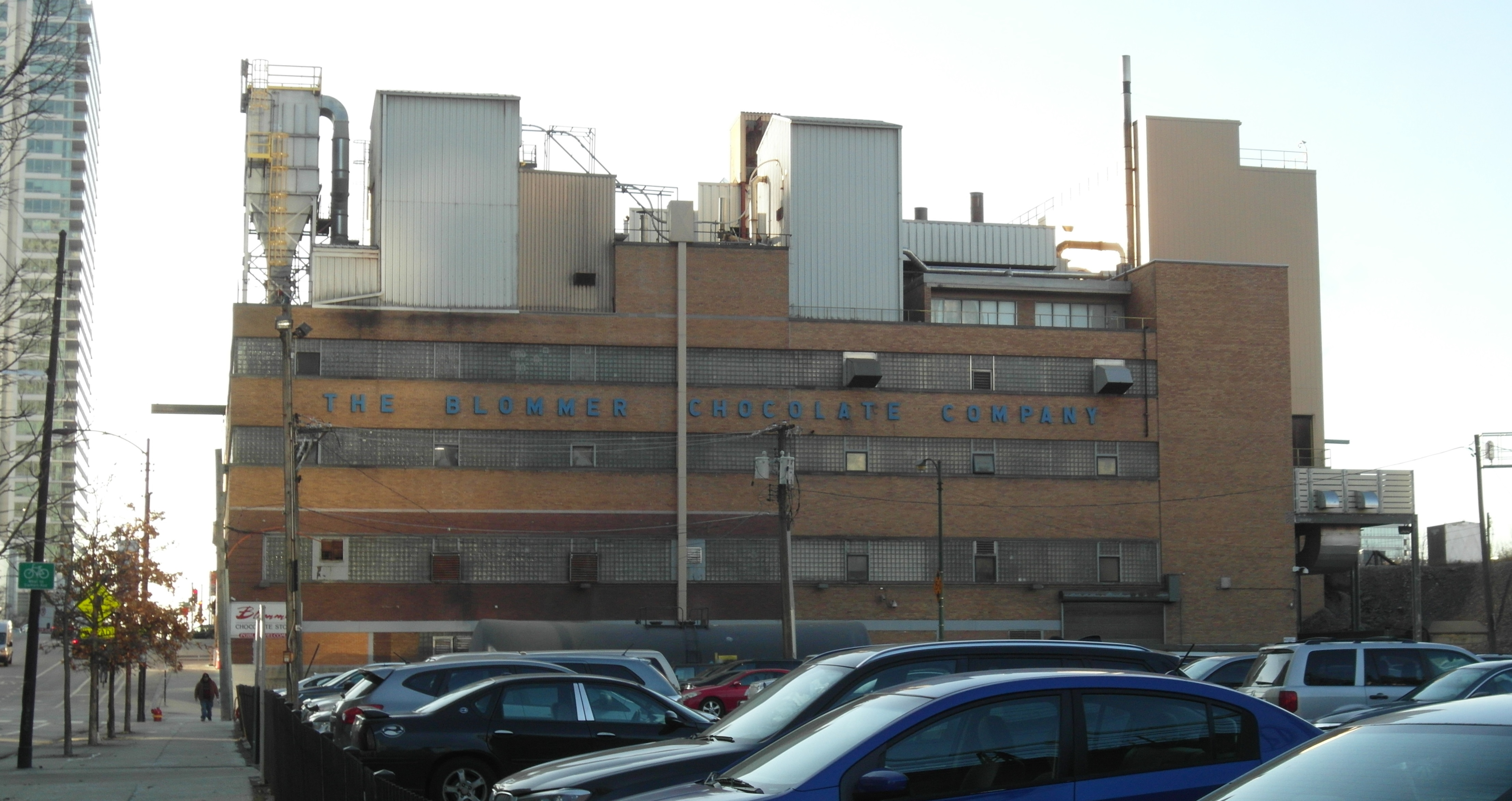 The Blommer Chocolate Company factory, 600 W. Kinzie, Chicago, viewed from the east.